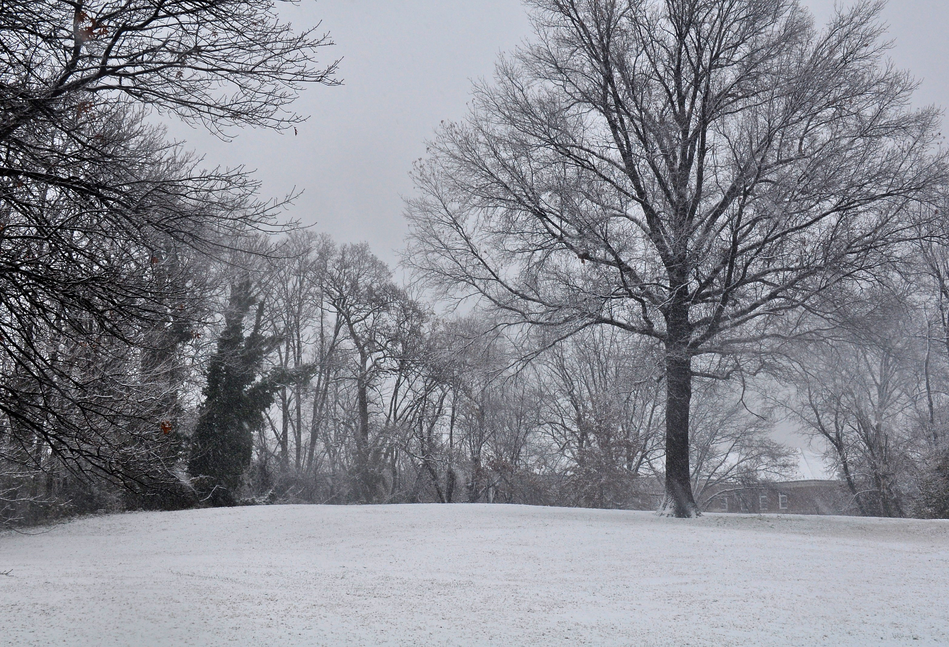 Point Reno, located in Fort Reno Park, is the high point of the District of Columbia with an elevation of 409 feet.